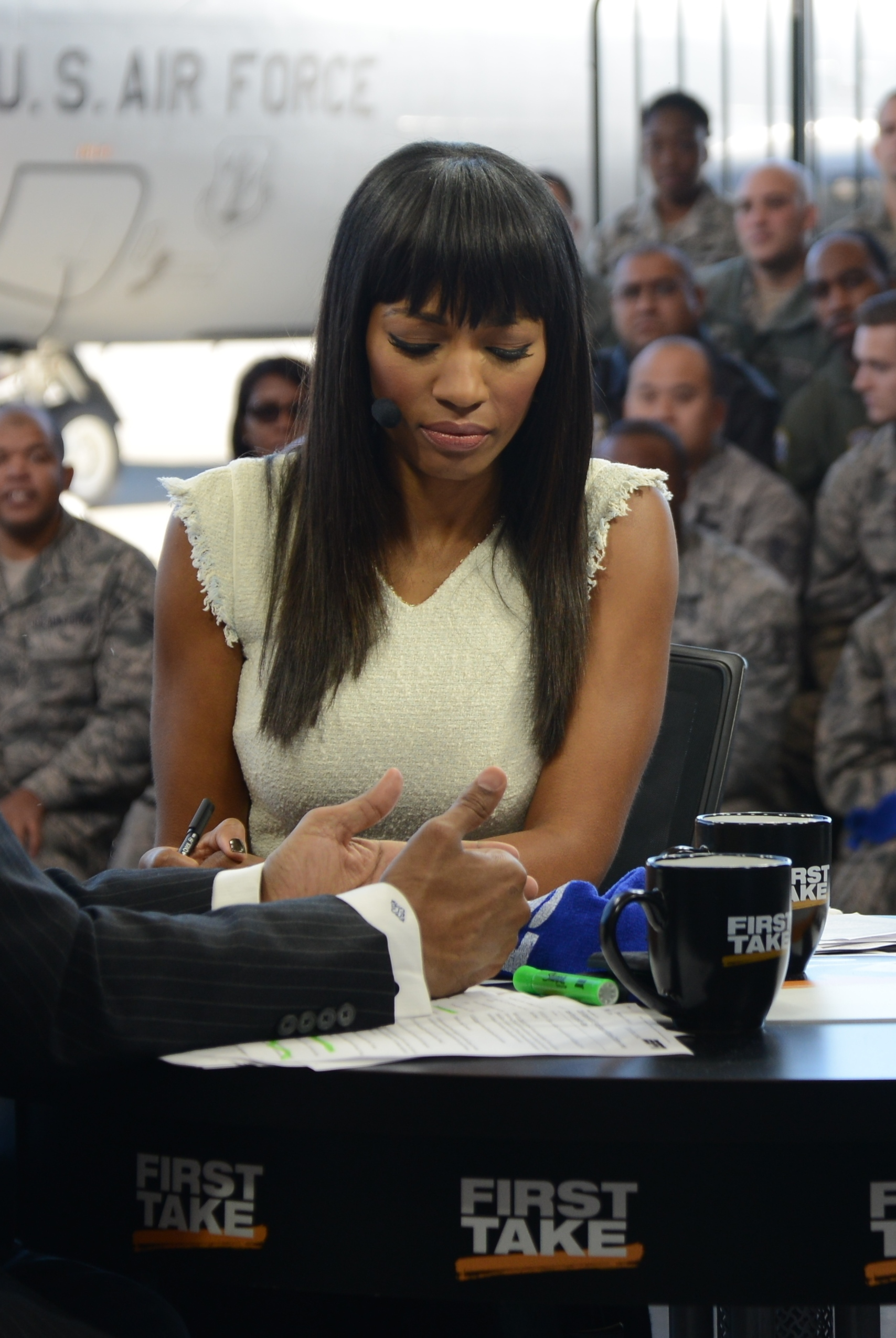 Cari Champion during a broadcast of First Take in 2014